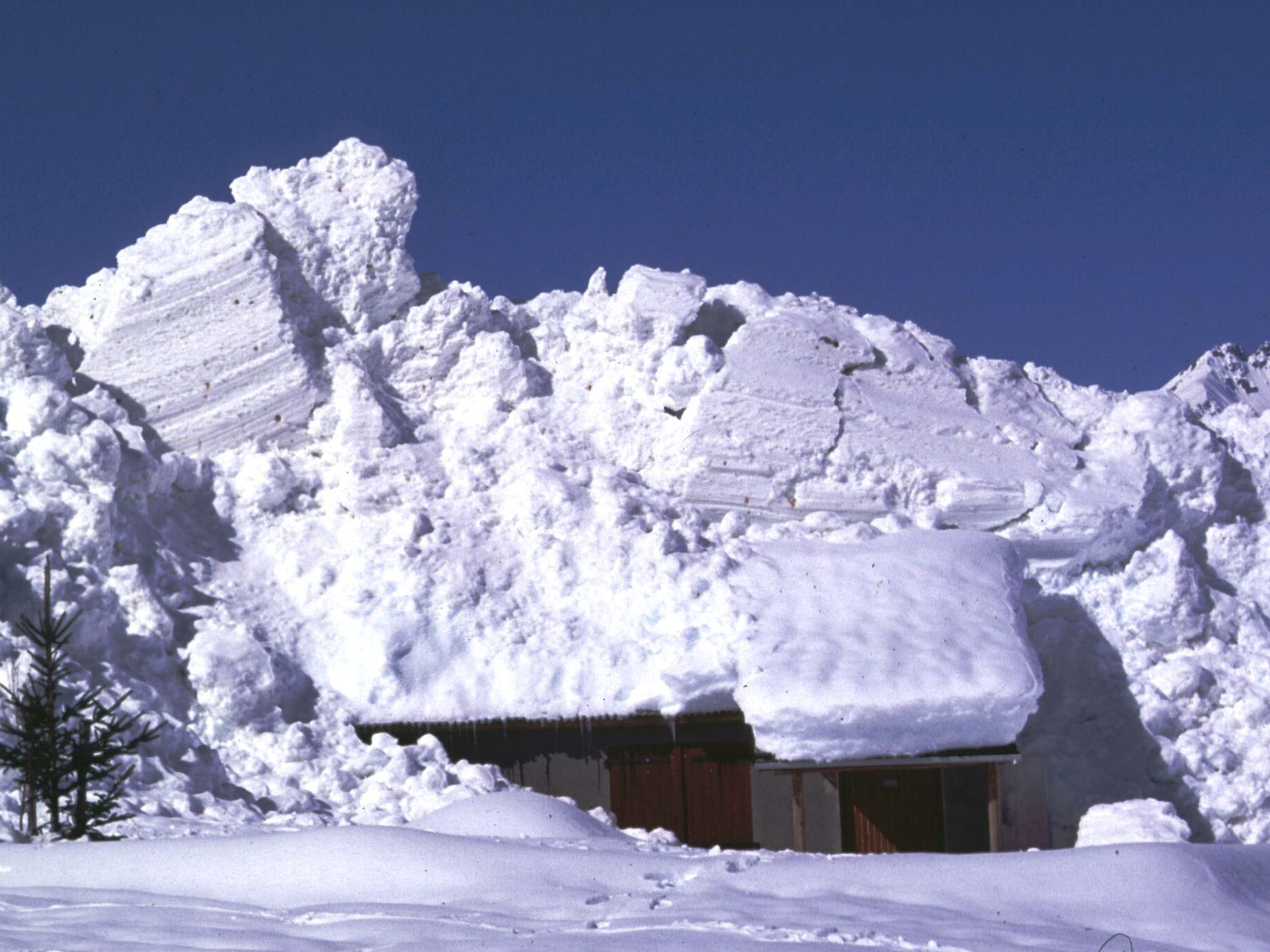 Flowing avalanche deposit over an house, where?